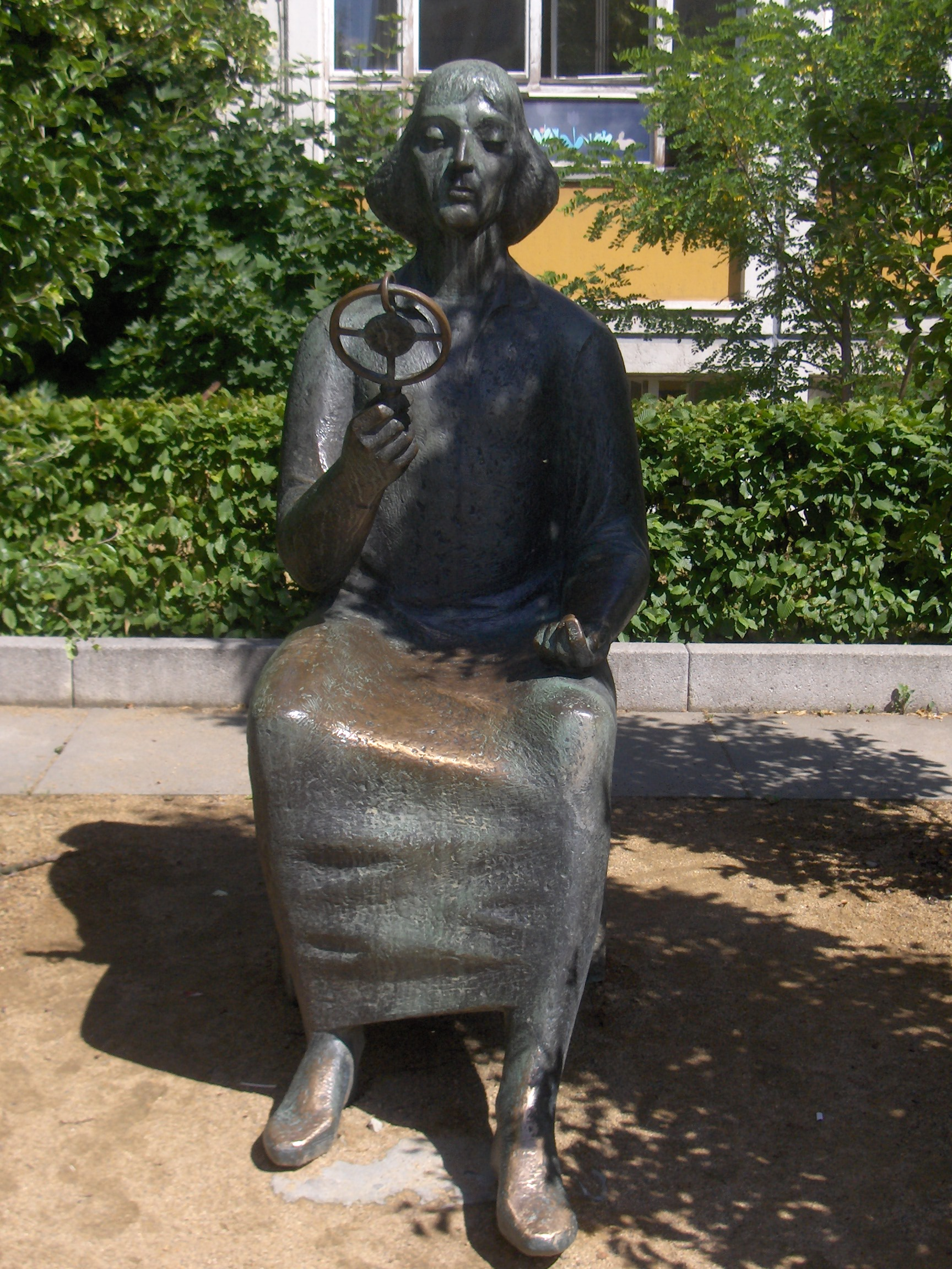 Nicolaus Copernicus monument in Frankfurt (Oder), Germany.